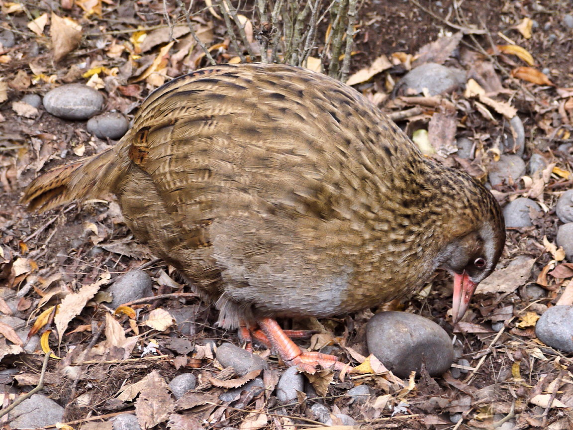 A Weka at Willowbank Wildlife Reserve, Christchurch, New Zealand. This subspecies is also called the Buff Weka.